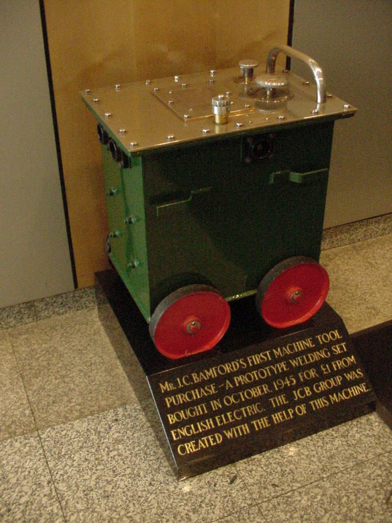 I took this photo. JCB's first welding set.